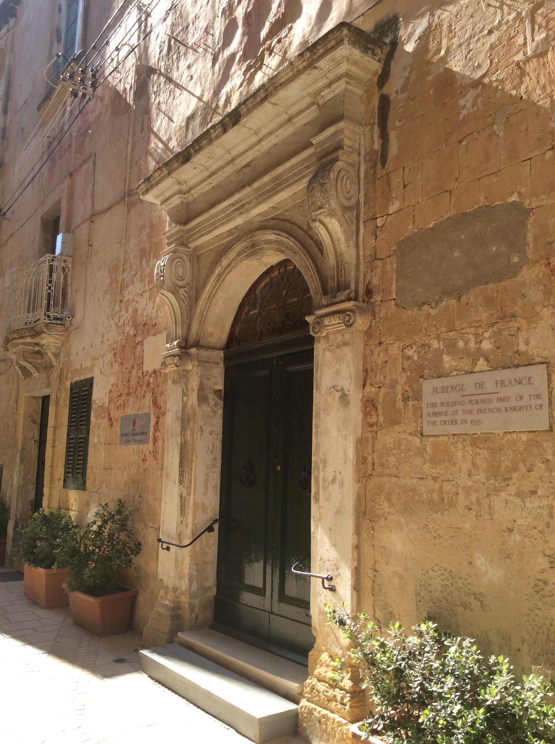 Auberge de France This media is about Maltese cultural property with inventory number 01158.